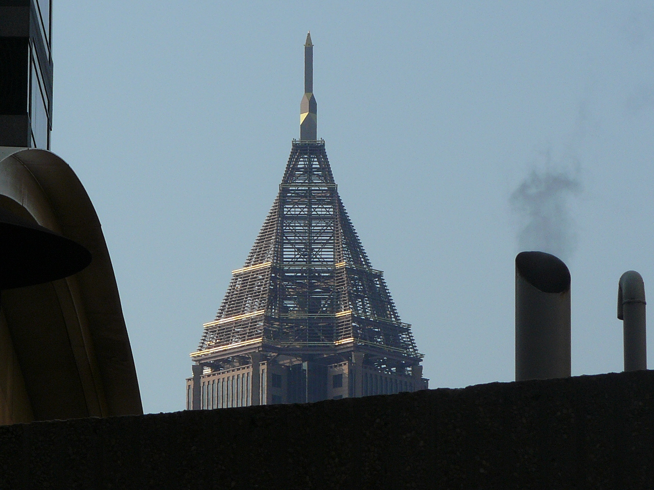 Roof of the Bank of America building.